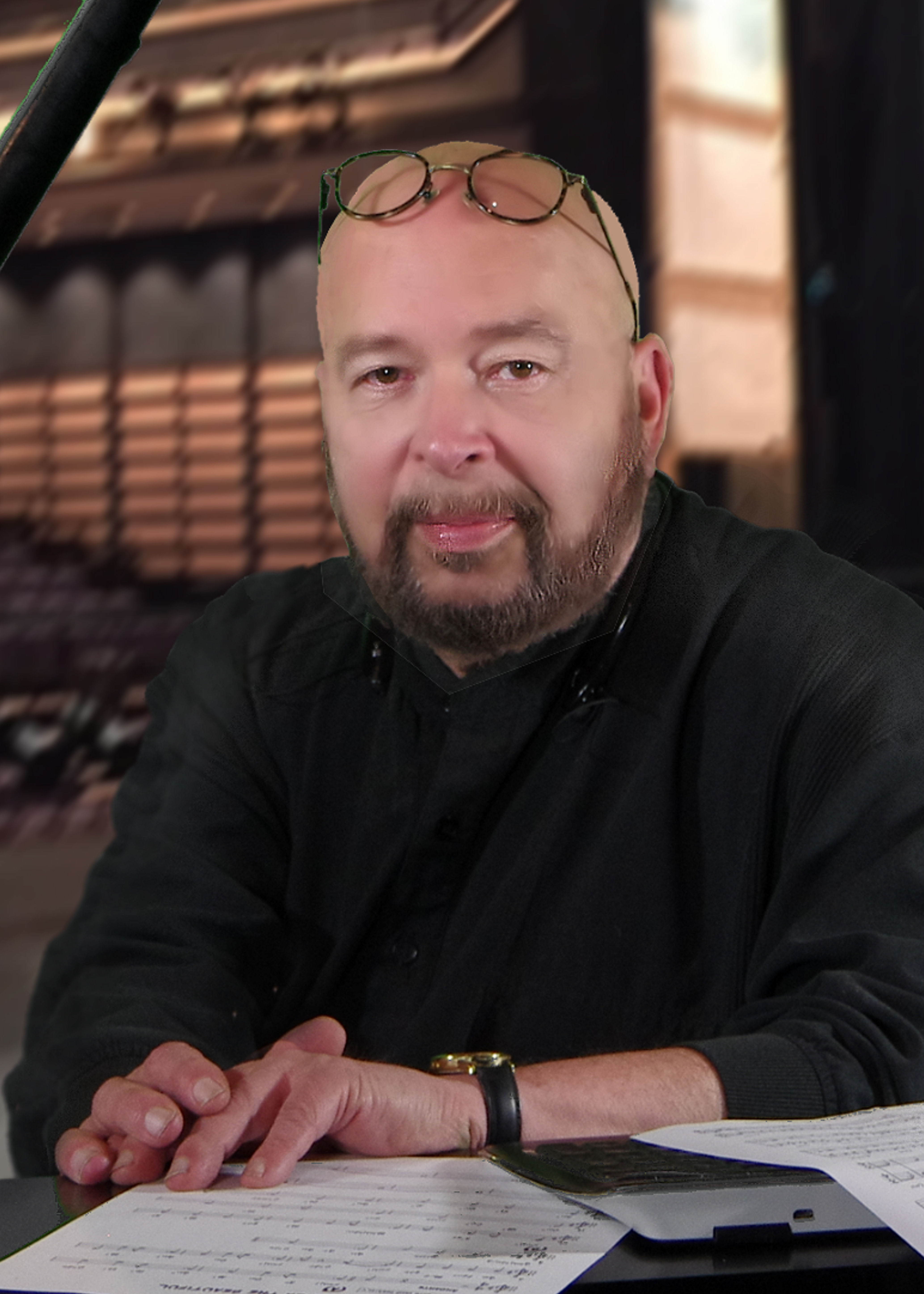 Mark Kramer (Jazz pianist) at piano, 2016